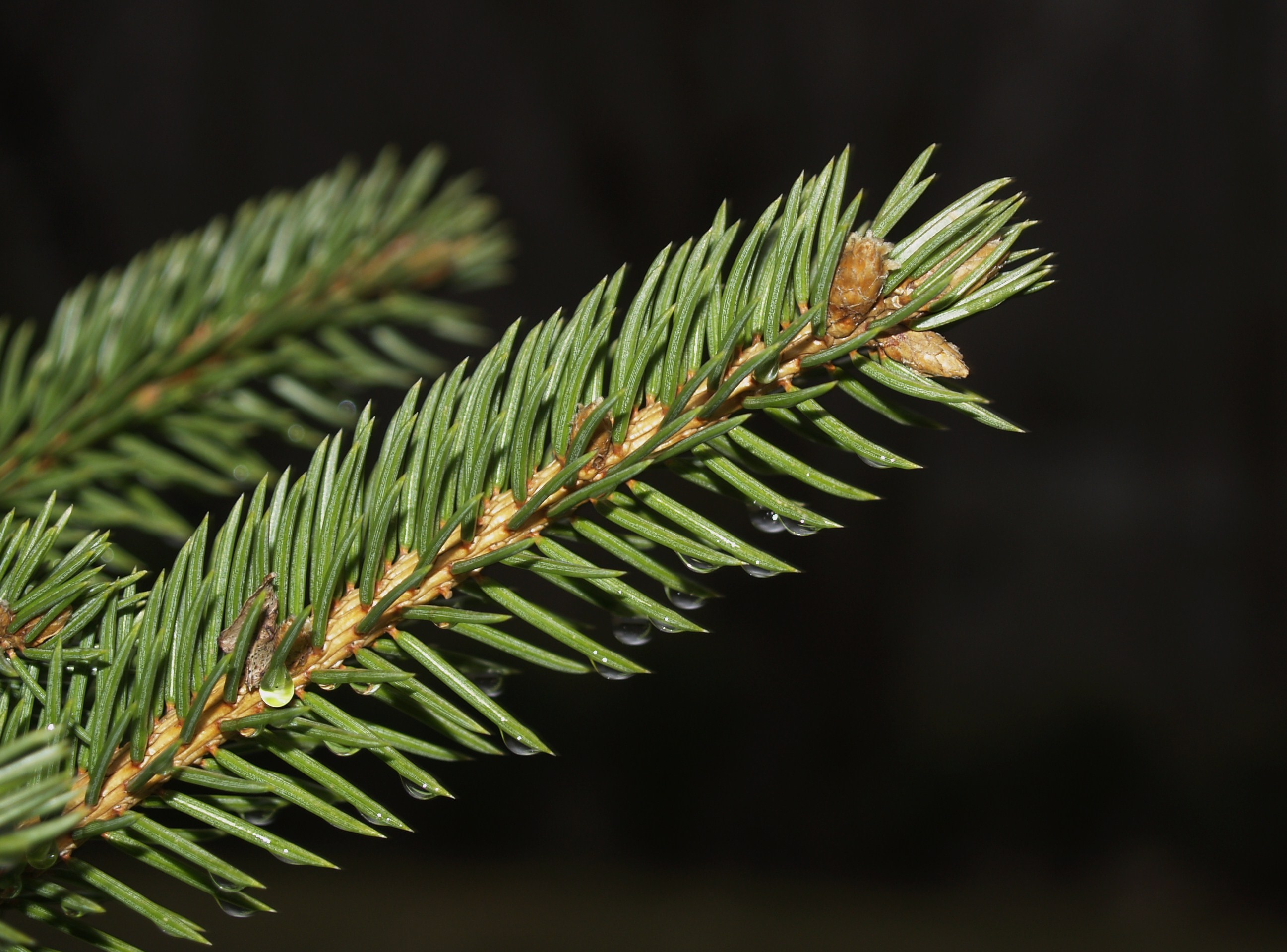 Norway Spruce (Picea abies).